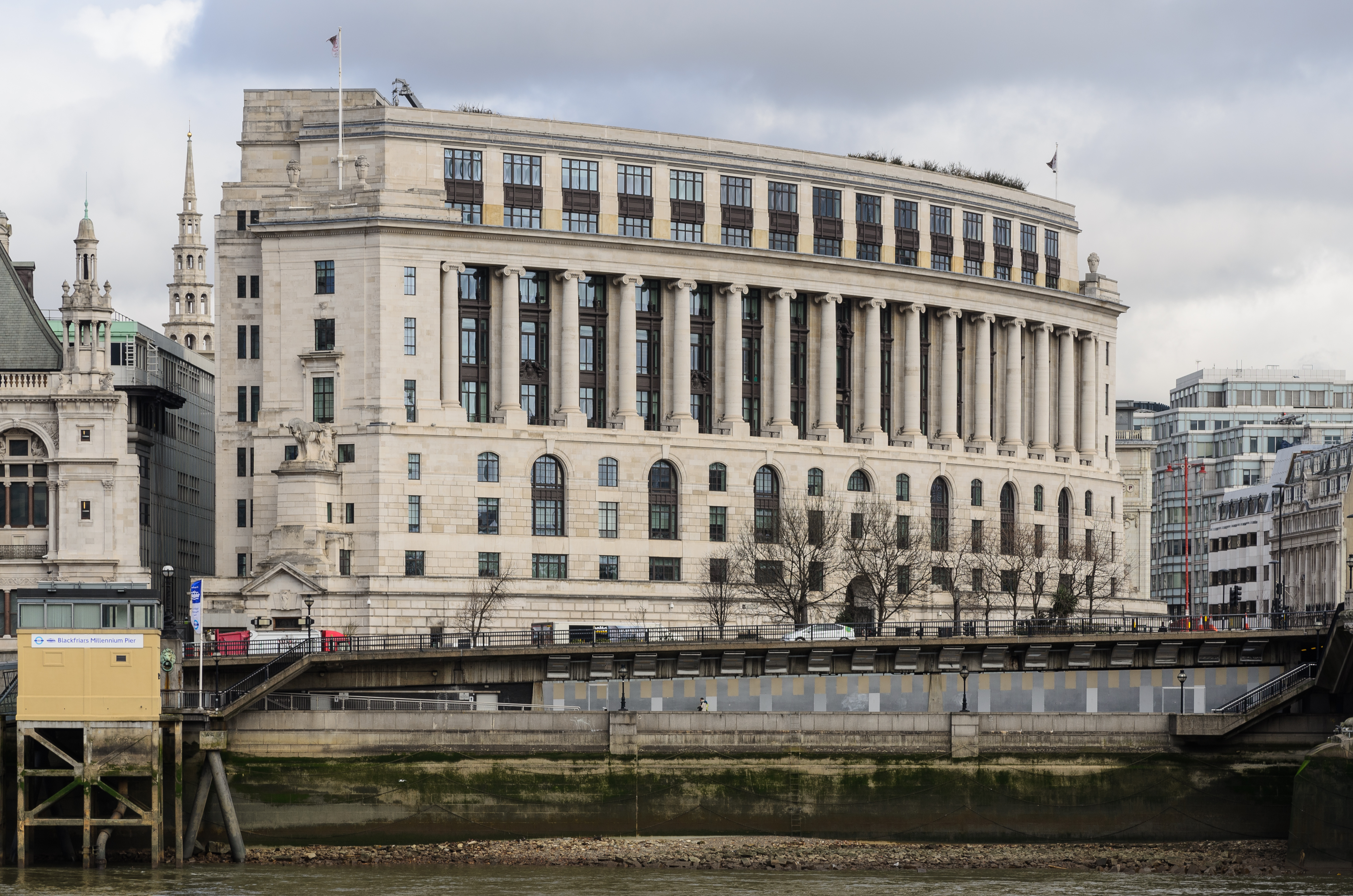 Unilever House, London EC4